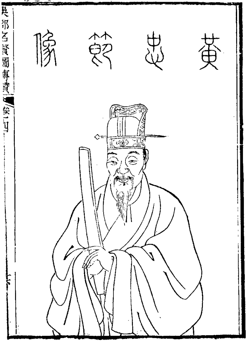 Huang Yue, politician of the Ming Dynasty.